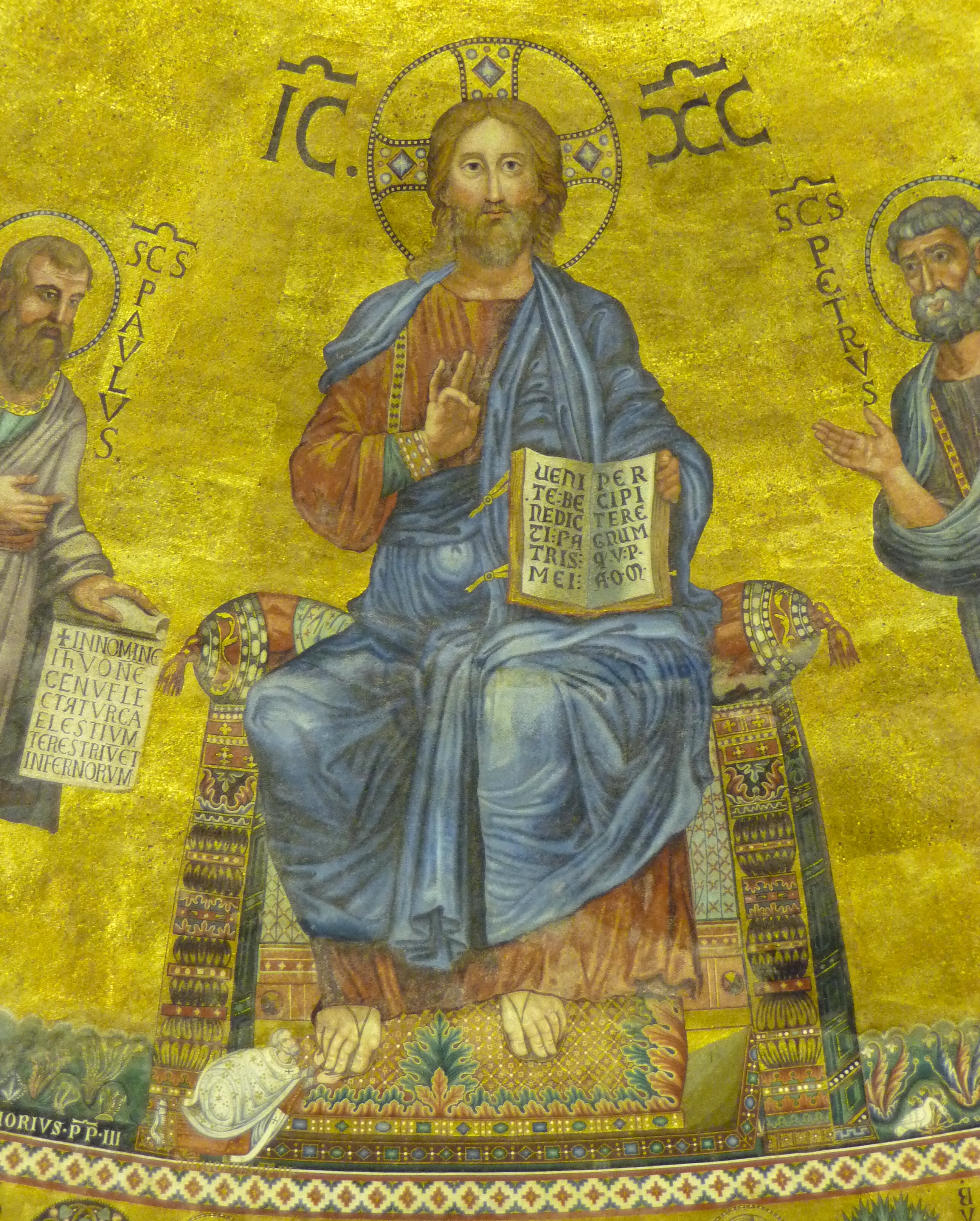 Jesus Christ on a mosaic in the Basilica of Saint Paul Outside the Walls in Rome (Lazio, Italy).